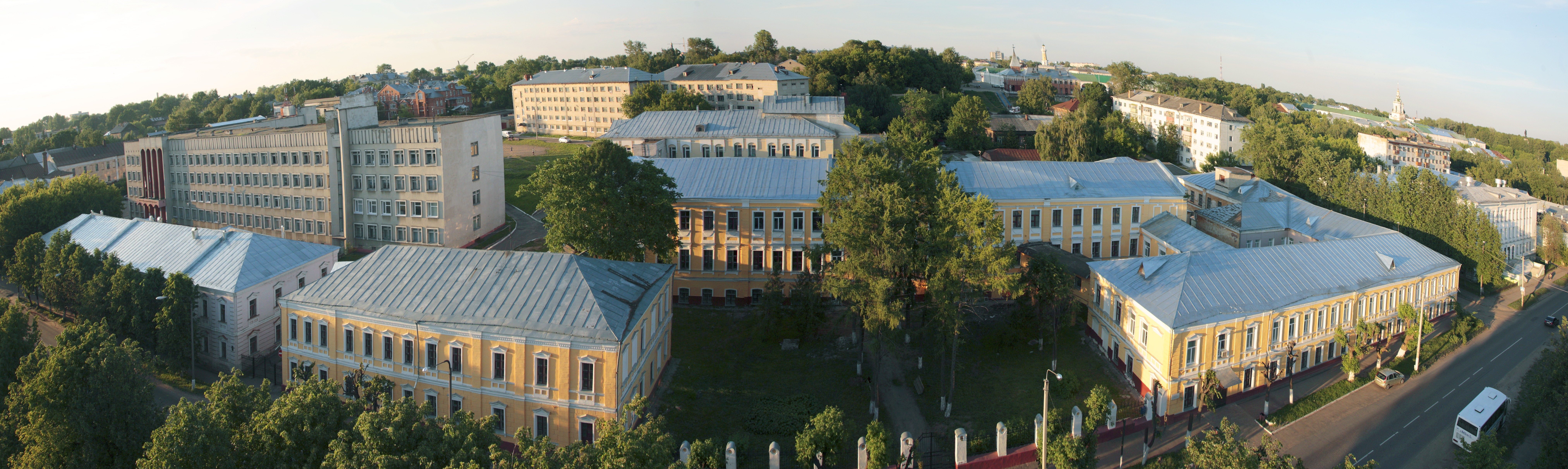 Panoramic photo of Nekrasov Kostroma State University campus. The photo was taken from a balloon near Volga river.